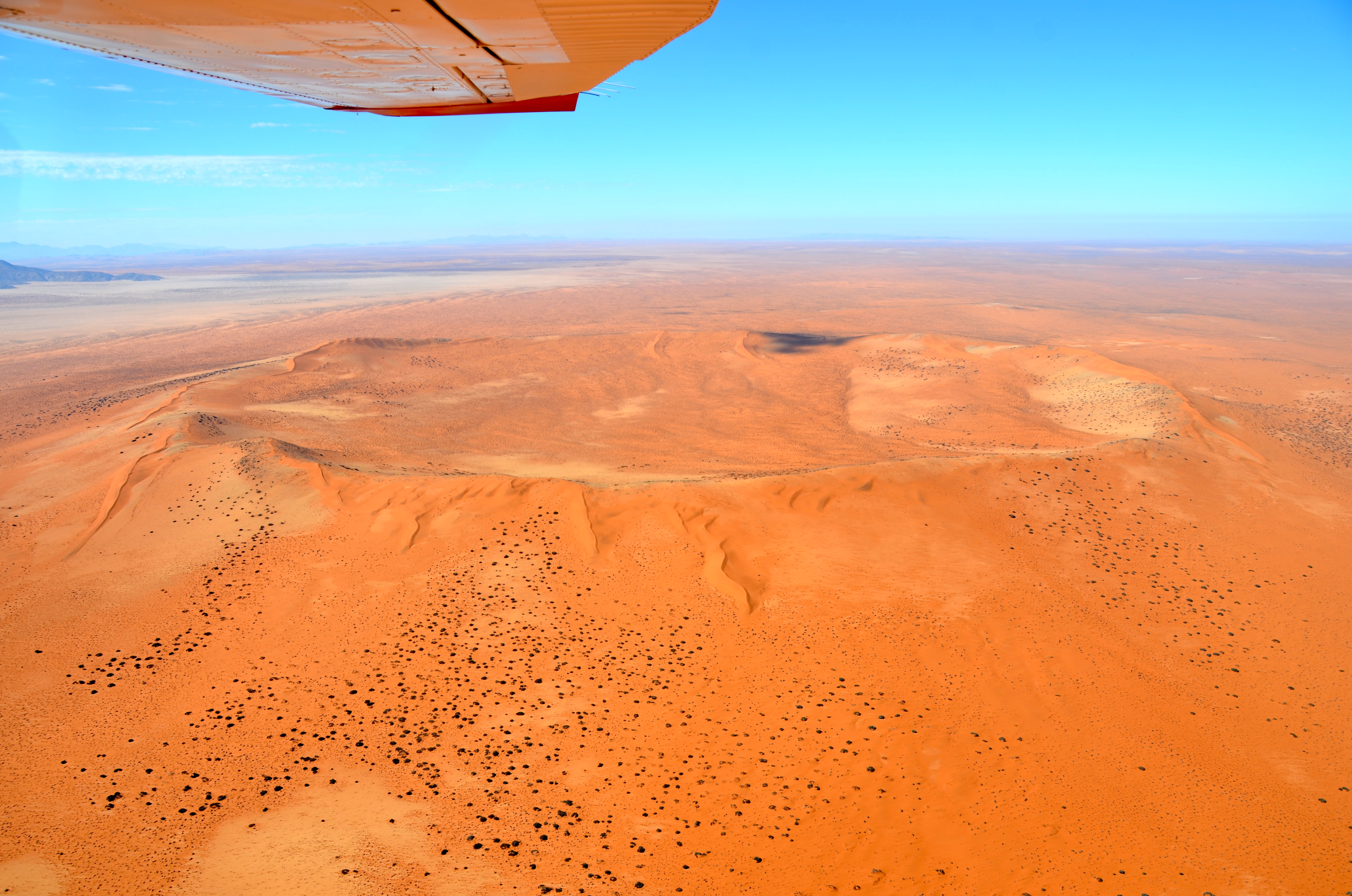 Bird's eye view of Roter Kamm (April 2017)